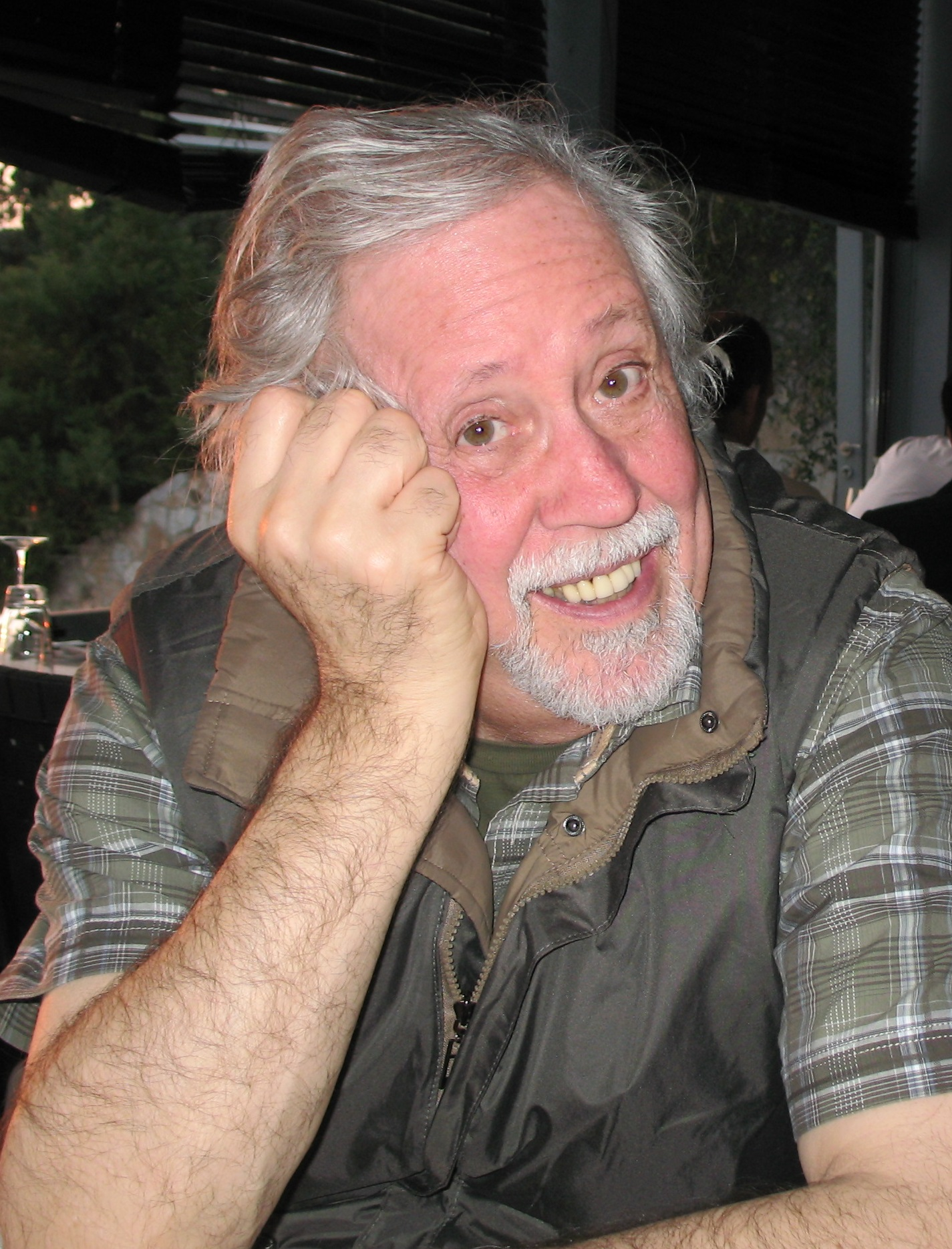 British political scientist and historian Ken Young, Professor of Public Policy at King's College London, as seen in 2013.